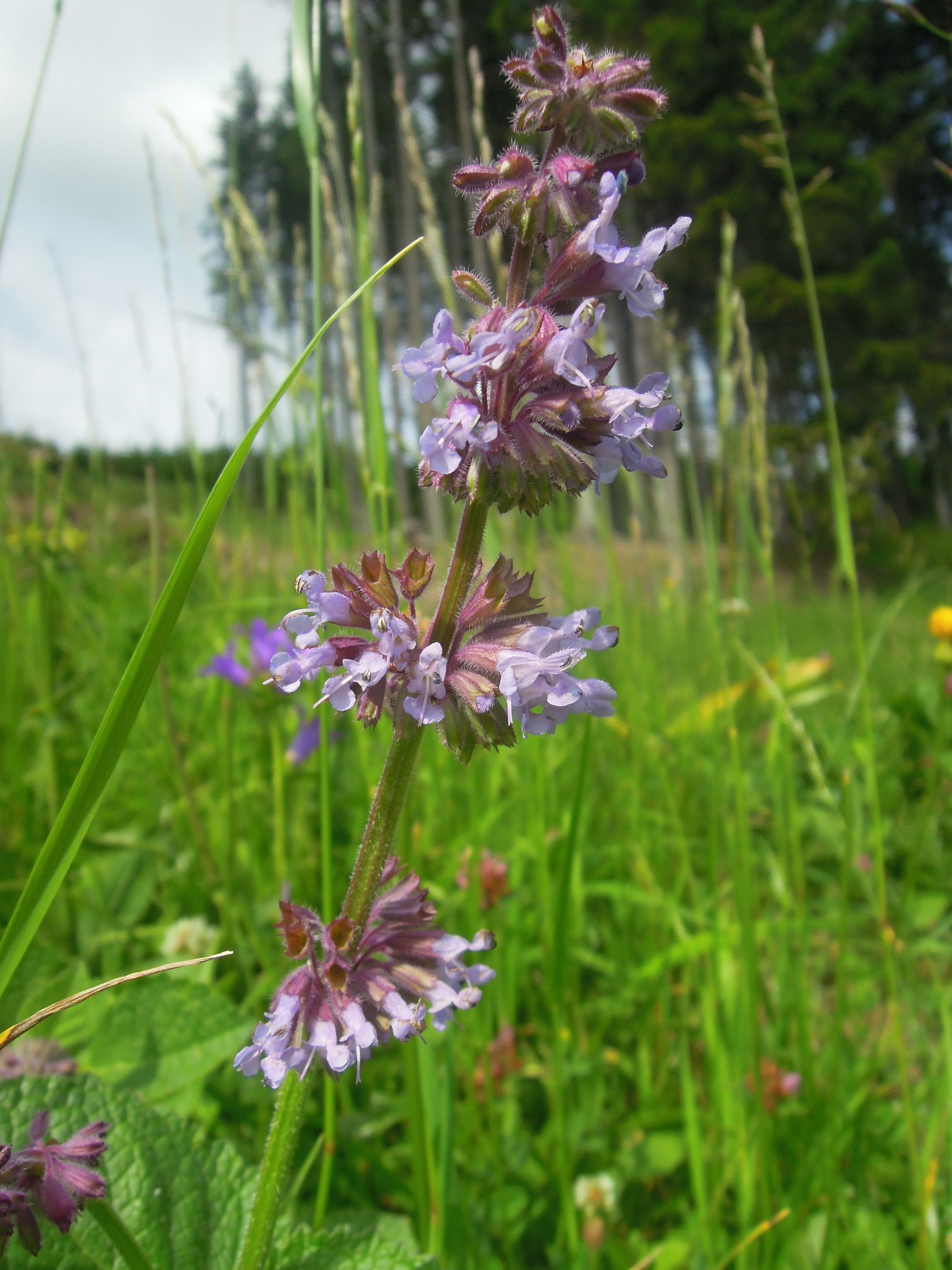 Salvia verticillata at nature reserve Dobšena in Valašské Klobouky, Zlín District, Zlín Region, Czech Republic